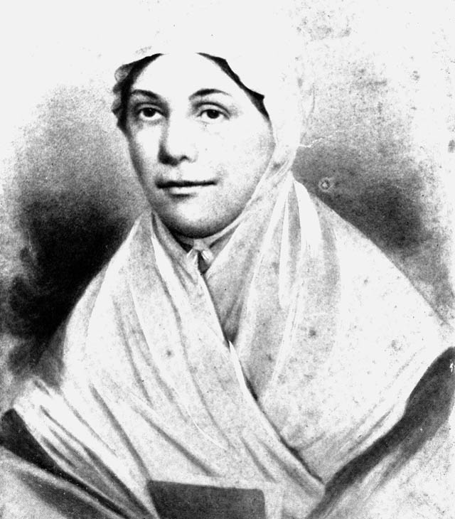 Only portrait of Sara(h) Brown. 1764-1849.